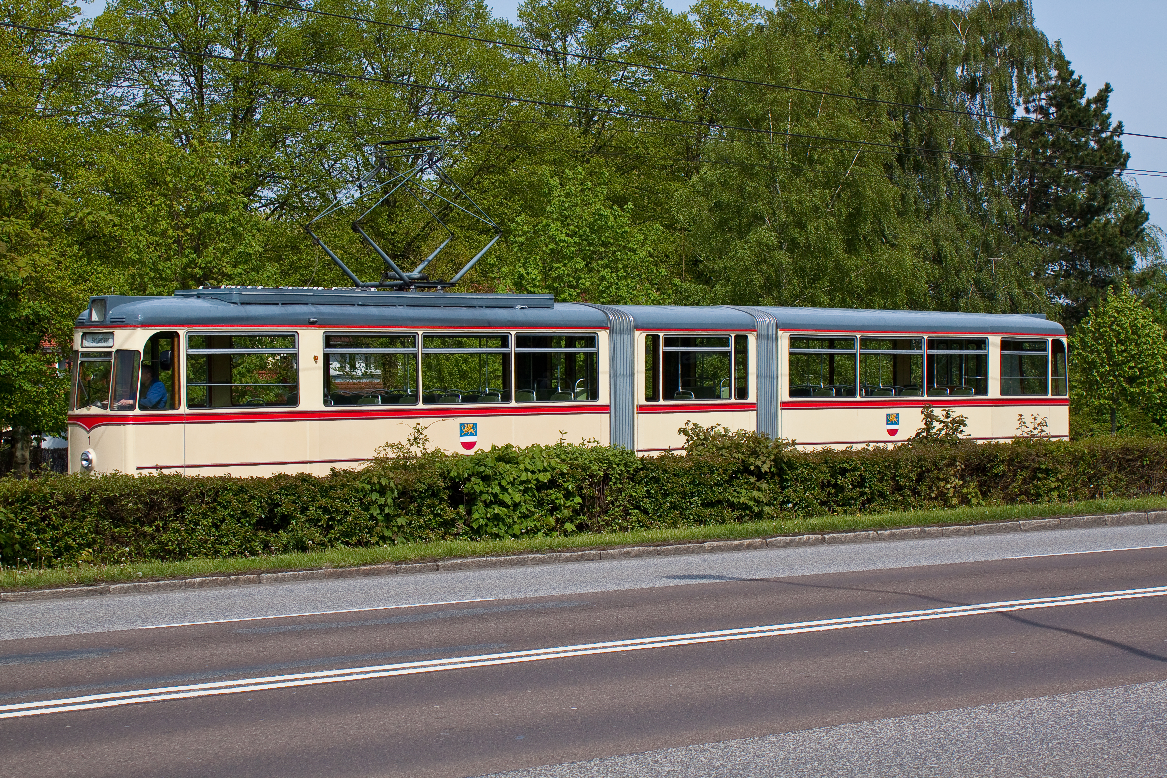 A historical tramway, type Gothawagen G4-61, on tracks in the Hamburger Strasse, Rostock-Reutershagen, Mecklenburg-Western Pomerania.